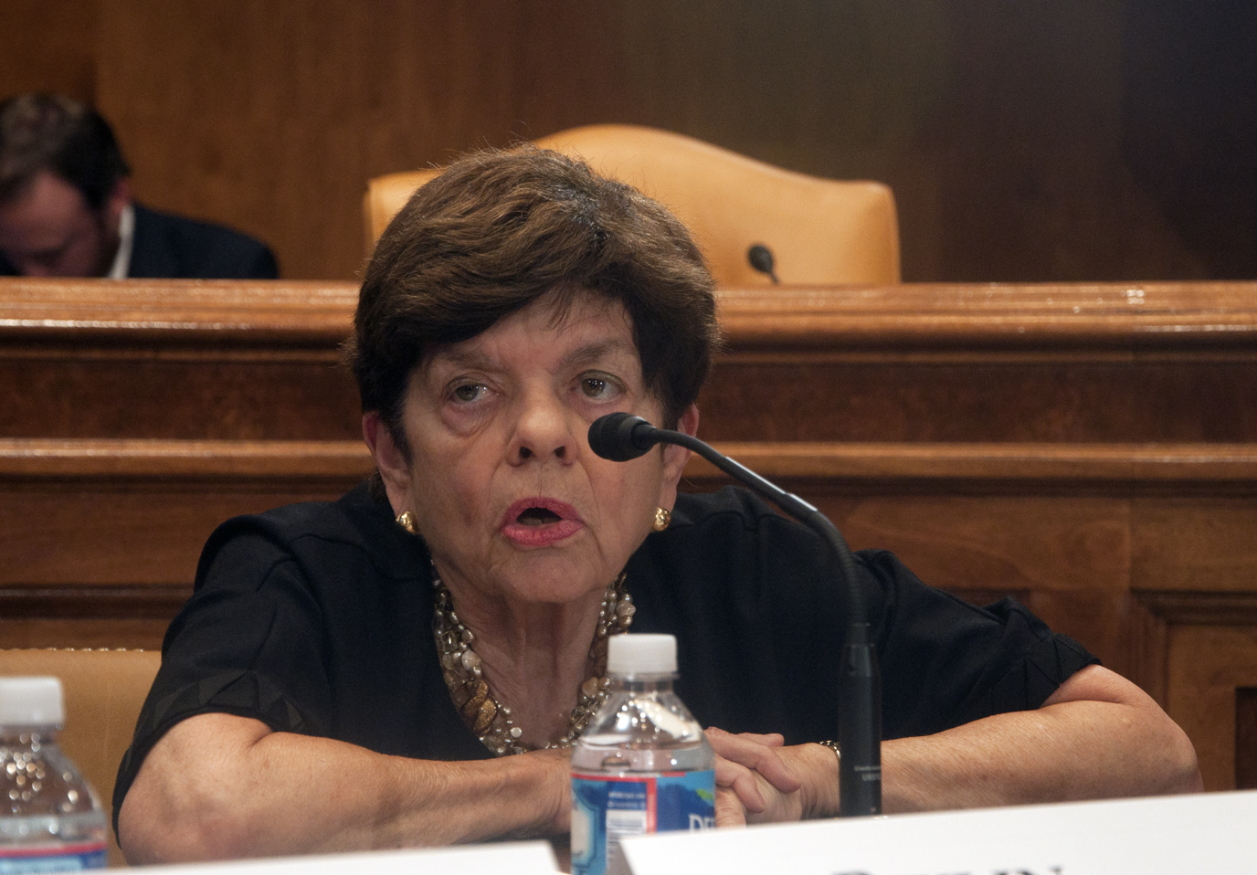 American economist Alice Rivlin urging the United States Congress Joint Select Committee on Deficit Reduction to "go big" on debt reduction in 2011.